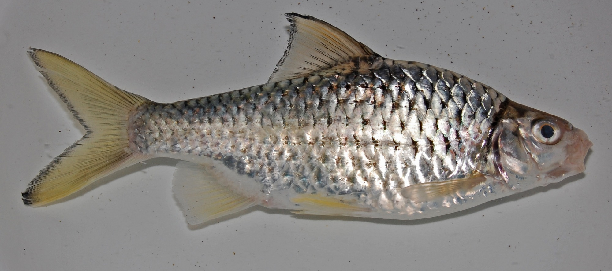 Barbonymus gonionotus (122mm SL). From Cisadane River, Situgede, Bogor, West Java, Indonesia. errata: Misidentified, it should be Mystacoleucus marginatus